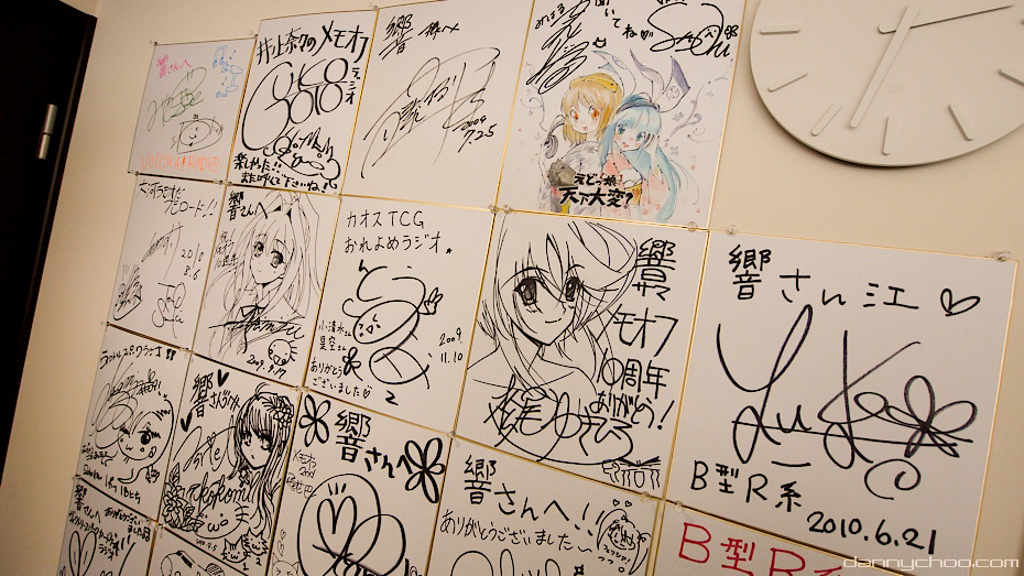 Square drawing papers (The Headquarter of Hibiki Inc.)